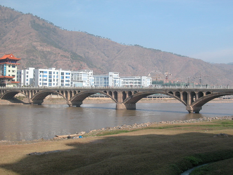 Located in Miyi County, Sichuan Province of China